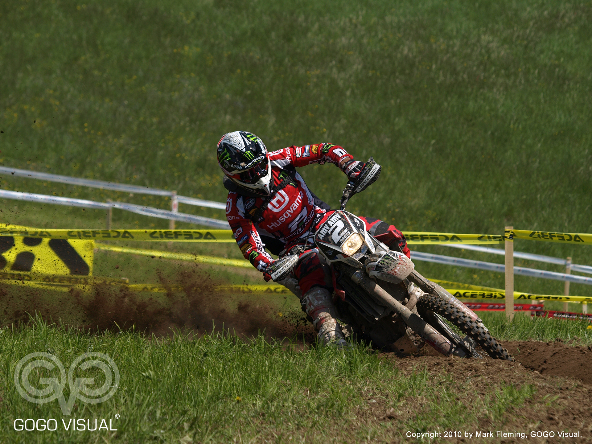 E1 - Antoine Meo (FRA, Husqvarna) at the 2010 MAXXIS FIM Enduro World Championship GP of Italy, in Lovere (41st Valli Bergamasche).